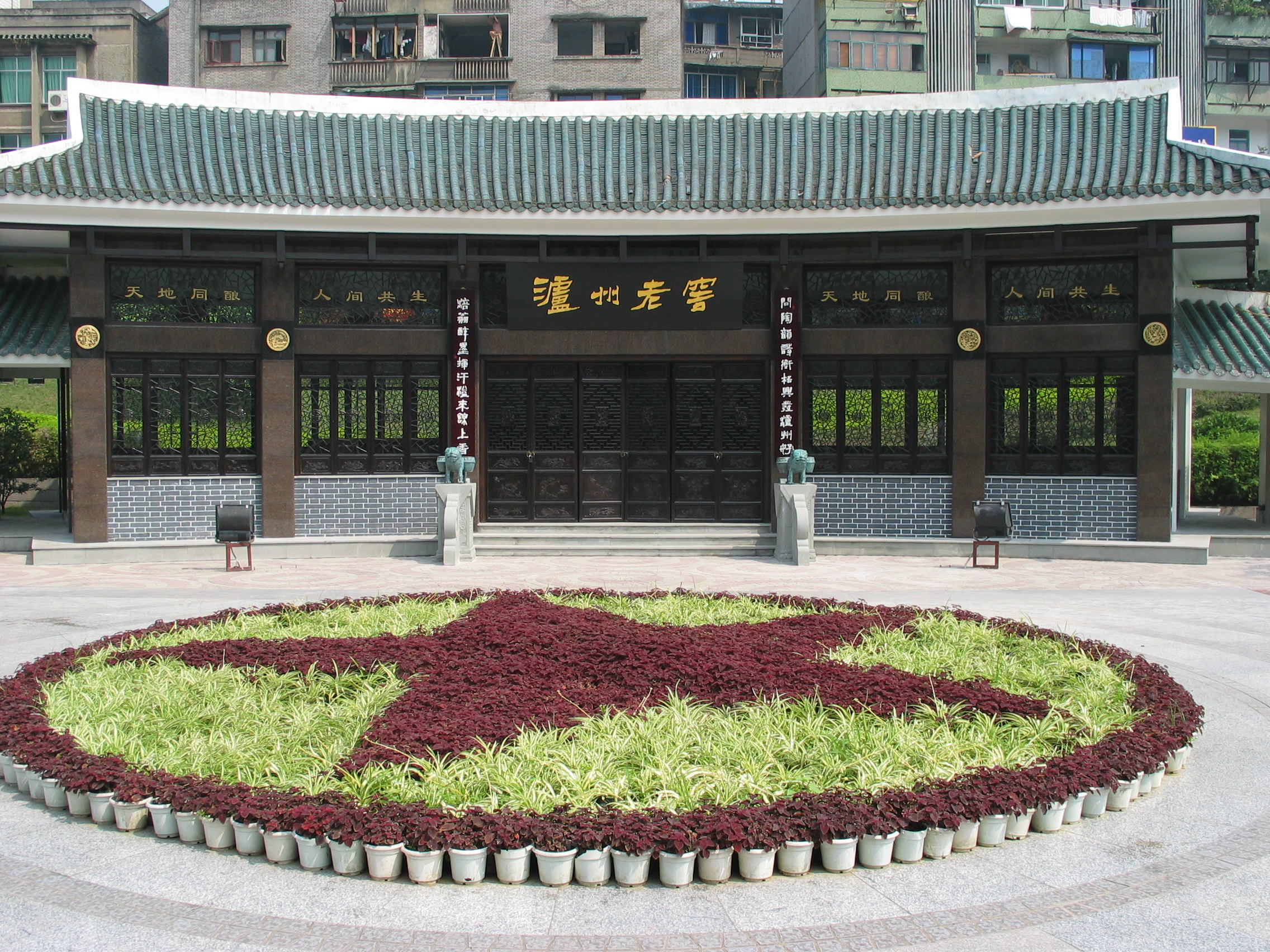 Site of the original Old Cellar, Luzhou, Sichuan, China